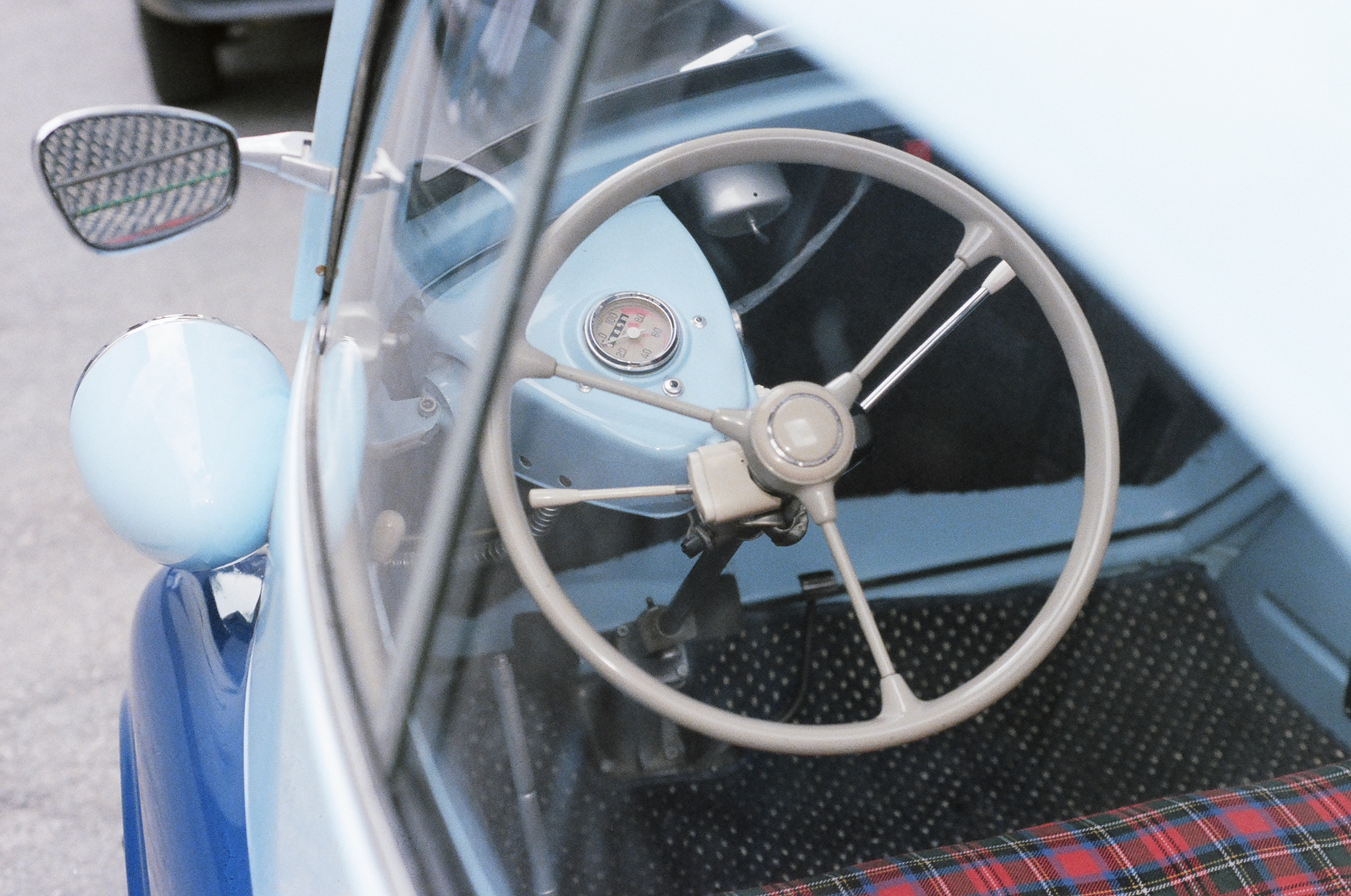 BMW Isetta 300 shot in Bad Tölz, Germany circa 1987, steering wheel view